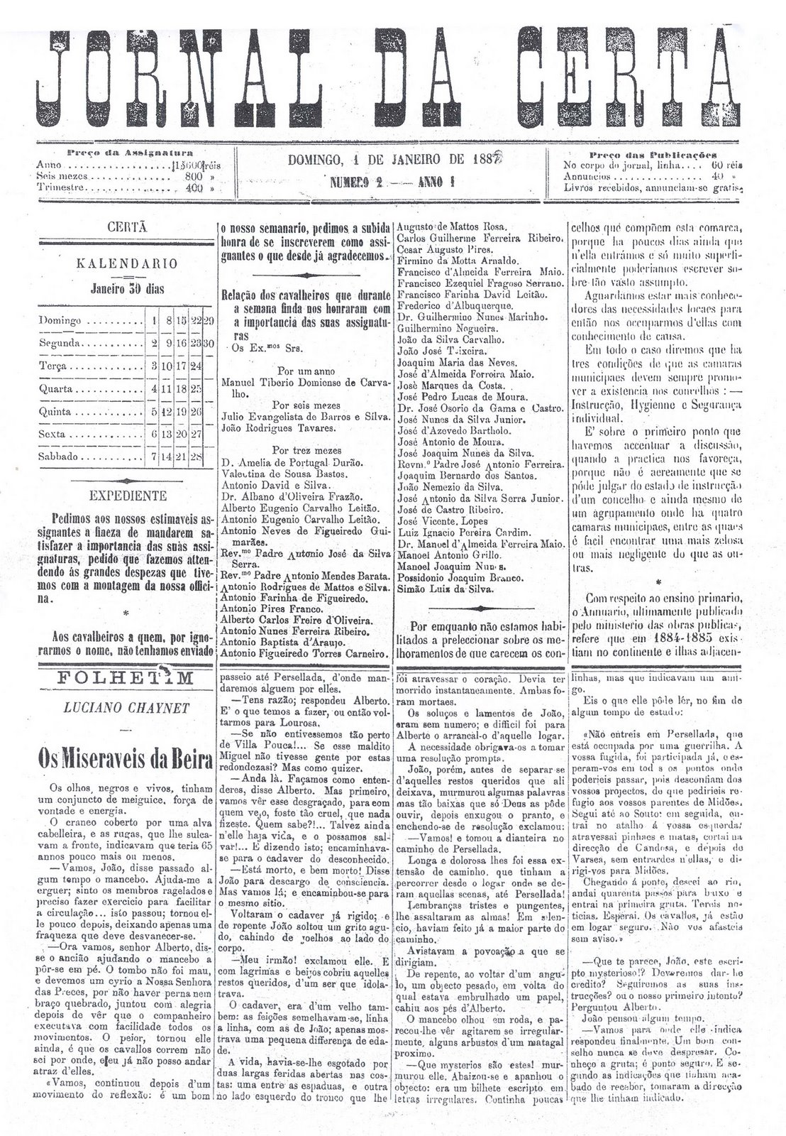 Cover of a 1887 newspaper